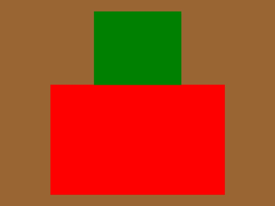 The distinguishing patch of the 4th Battalion, CEF. Summary The distinguishing patch of the 4th Battalion, CEF.